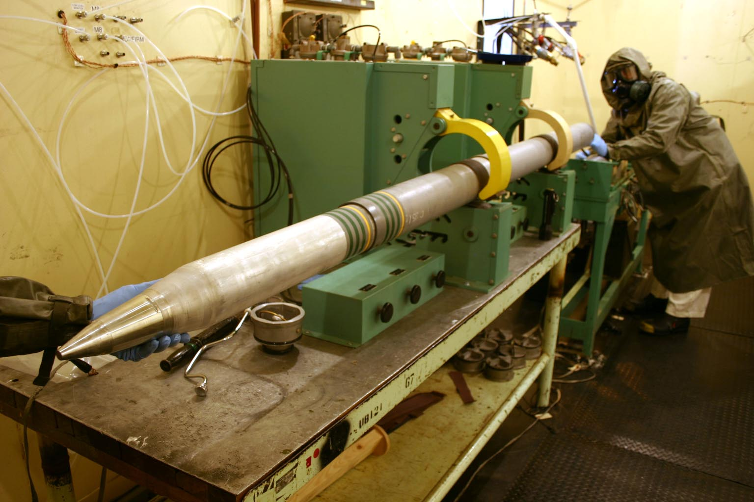 A chemical operations crew from the Umatilla Chemical Depot separate rocket motor and warhead sections on nine M55 rockets that were sent to an Army lab in Picatinny, N.J., for propellant sampling and analysis.